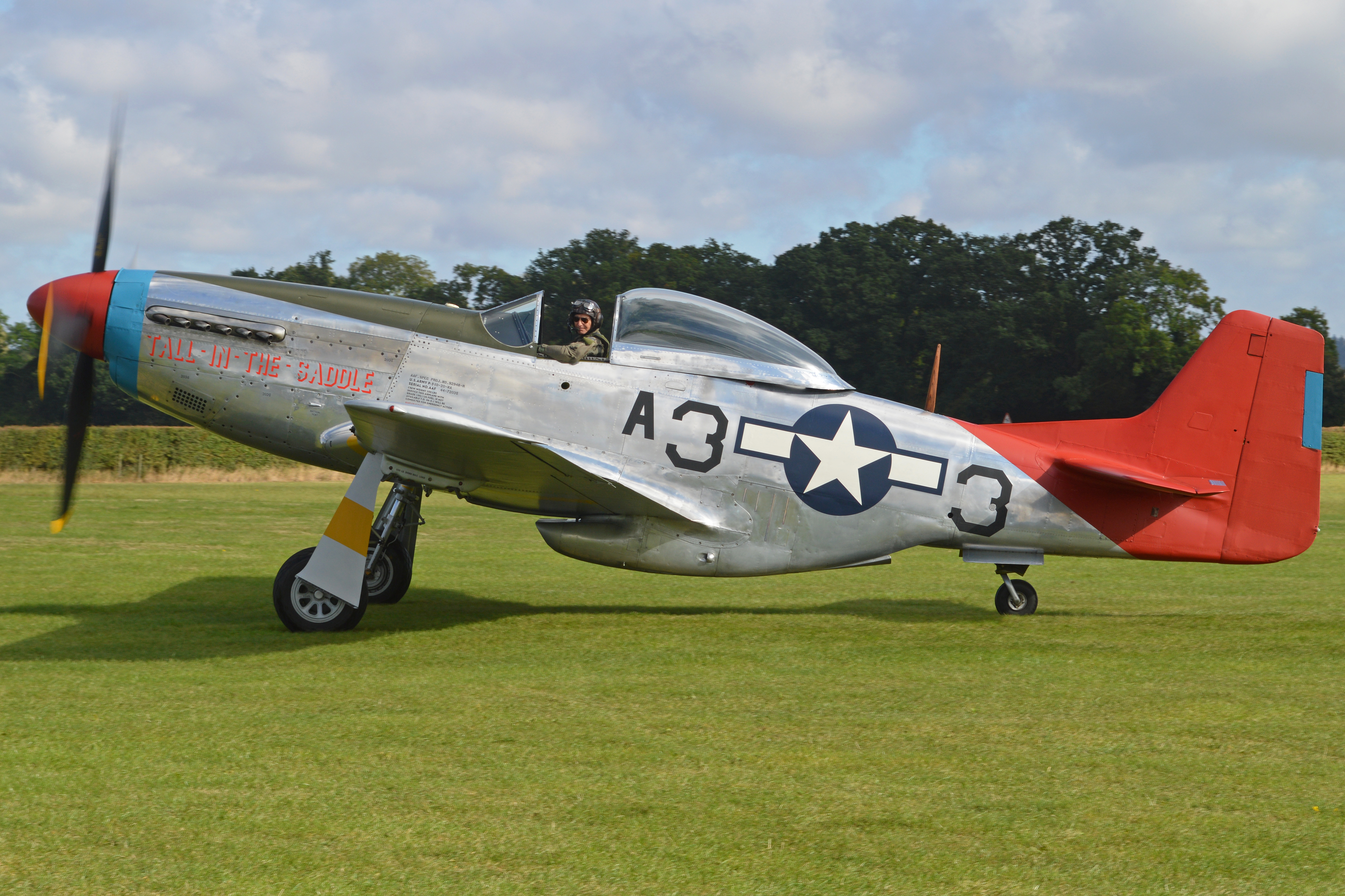 c/n 122-31894. Full US military serial 44-72035. Repainted for the 2016 season, this very original P-51 now wears her own genuine ‘Red Tail’ 332nd Fighter Group markings and is believed to be the only Mustang to have served with the group which currently remains airworthy. Also present at this event was Lt Colonel George Hardy, who was one of the Tuskegee airmen and who flew this actual P-51 during WW2. An incredible reunion! She is seen taxiing to the flightline in the hands of her owner, Peter Teichman, after arriving for the 2016 Season Finale Airshow, Old Warden, Bedfordshire, UK. 02-10-2016